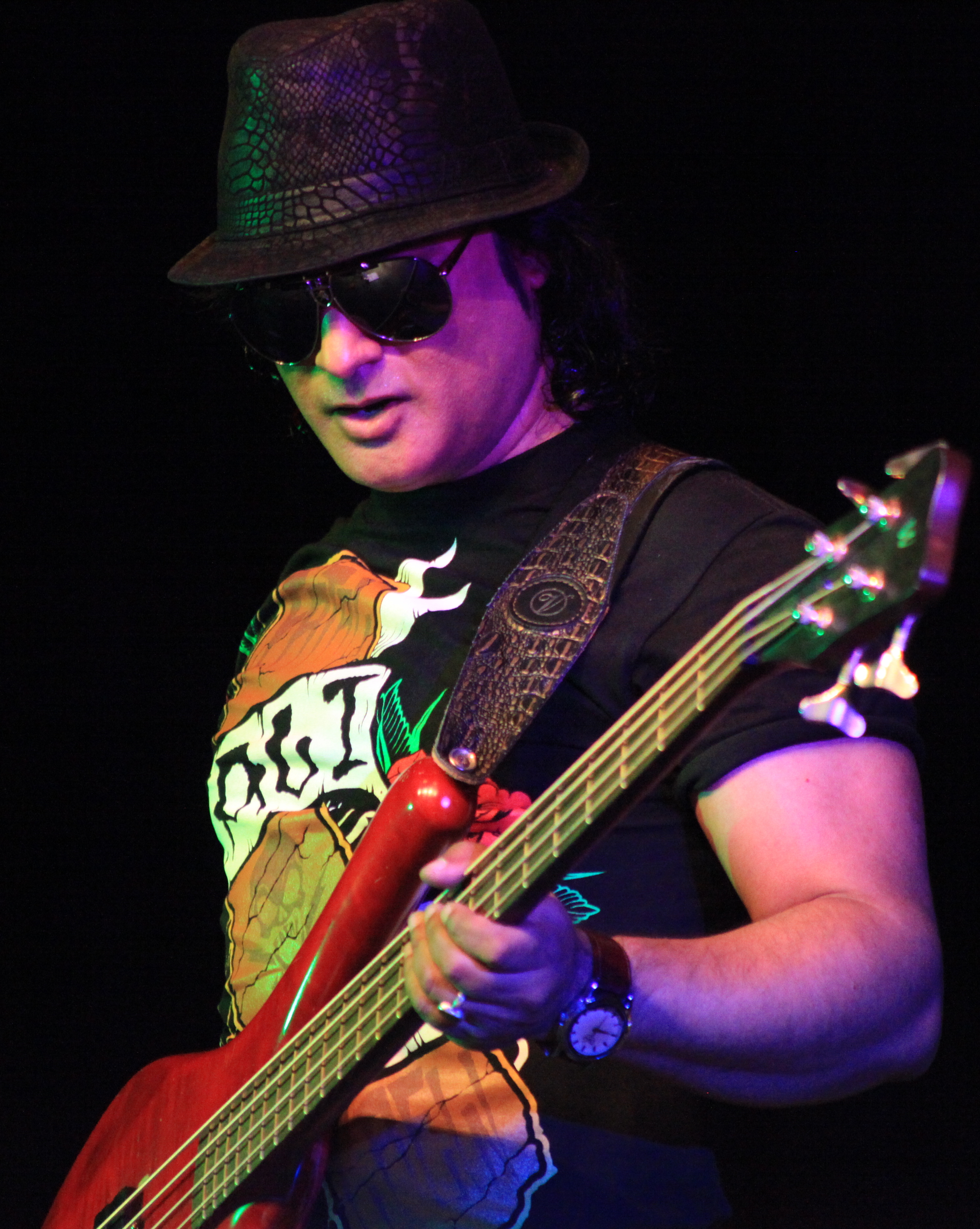 Shafin Ahmed in Seattle in 2012